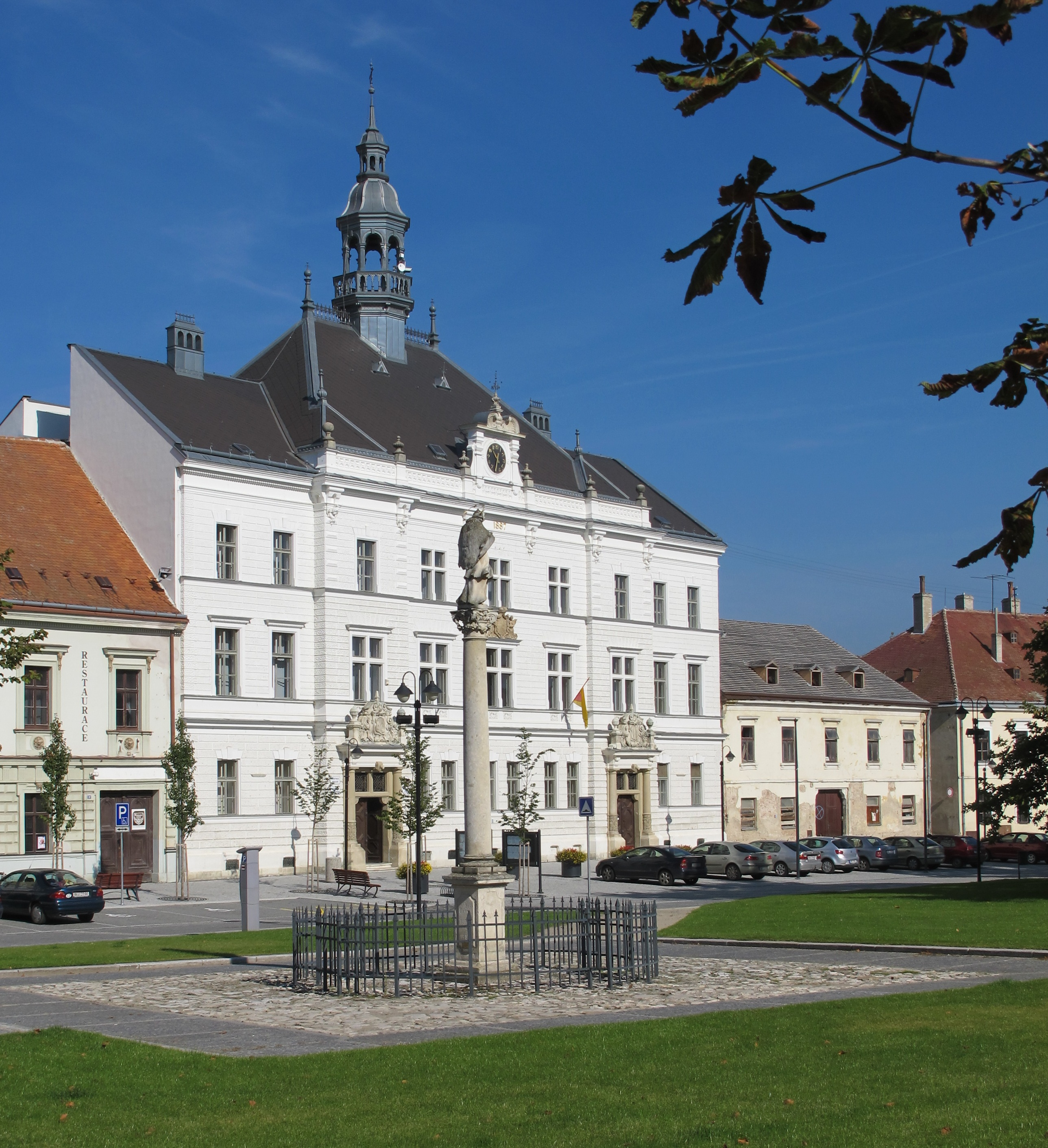 Townhall and column in Valtice, Břeclav District